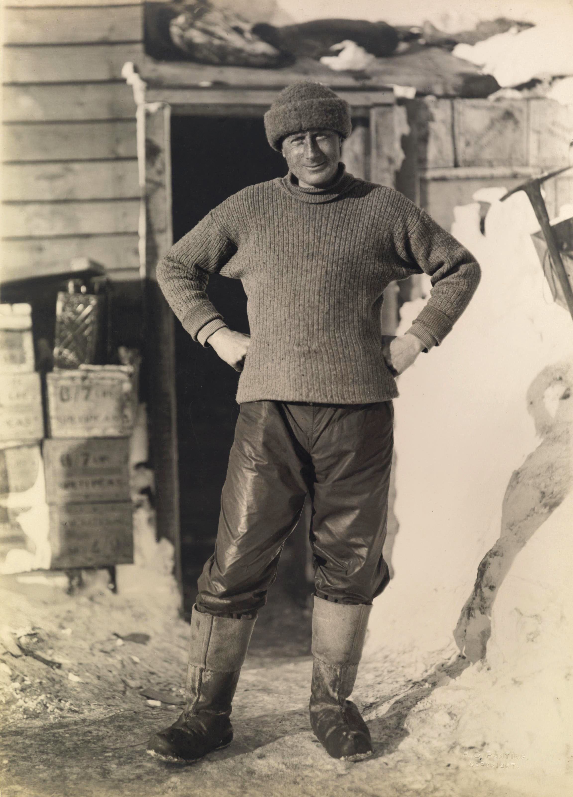 Dr. Edward Wilson, Scott's Antarctic Expedition, c. 1911, gelatin silver print